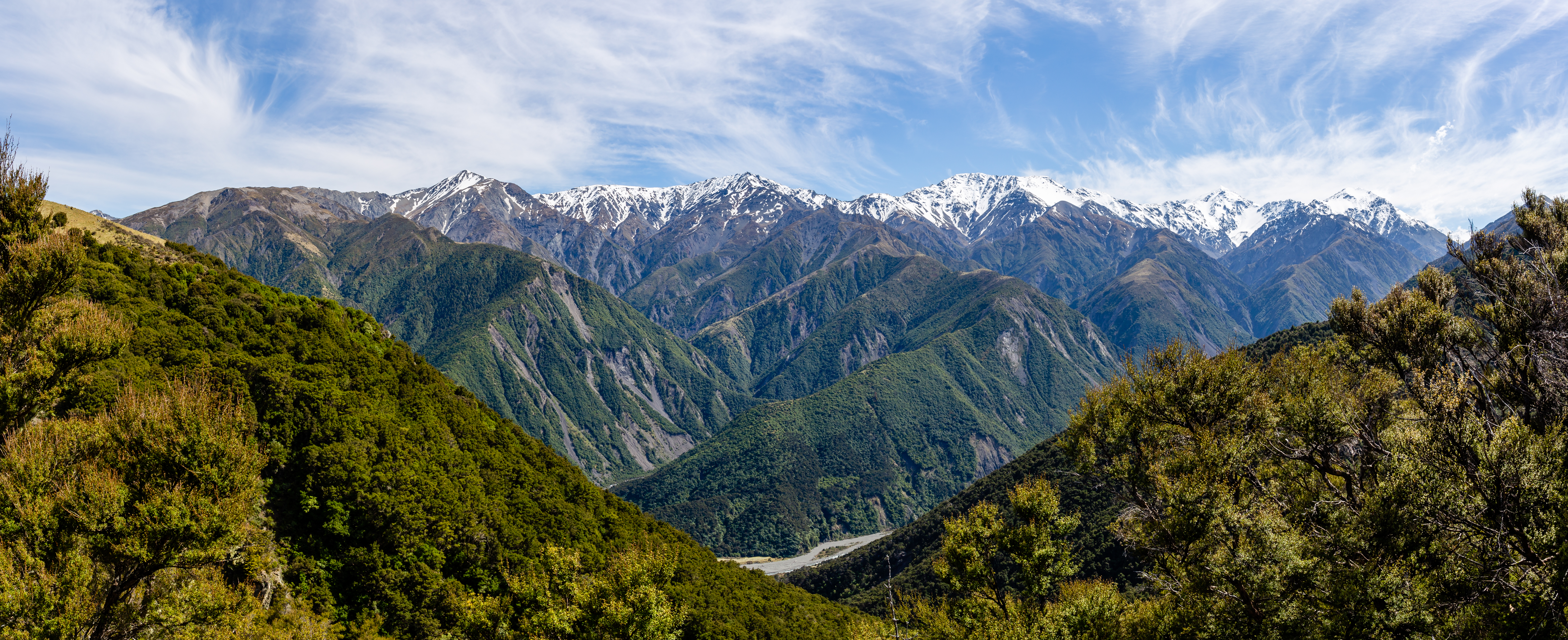 The picture was taken from the trail to Mt Fyffe and depicts Kowhai River at the bottom with the ranges West of Mt Fyffe. Kaikoura Ranges, New Zealand